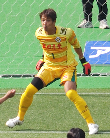 Yoichi Doi playing for Tokyo Verdy in the 2011 Tokyo derby.